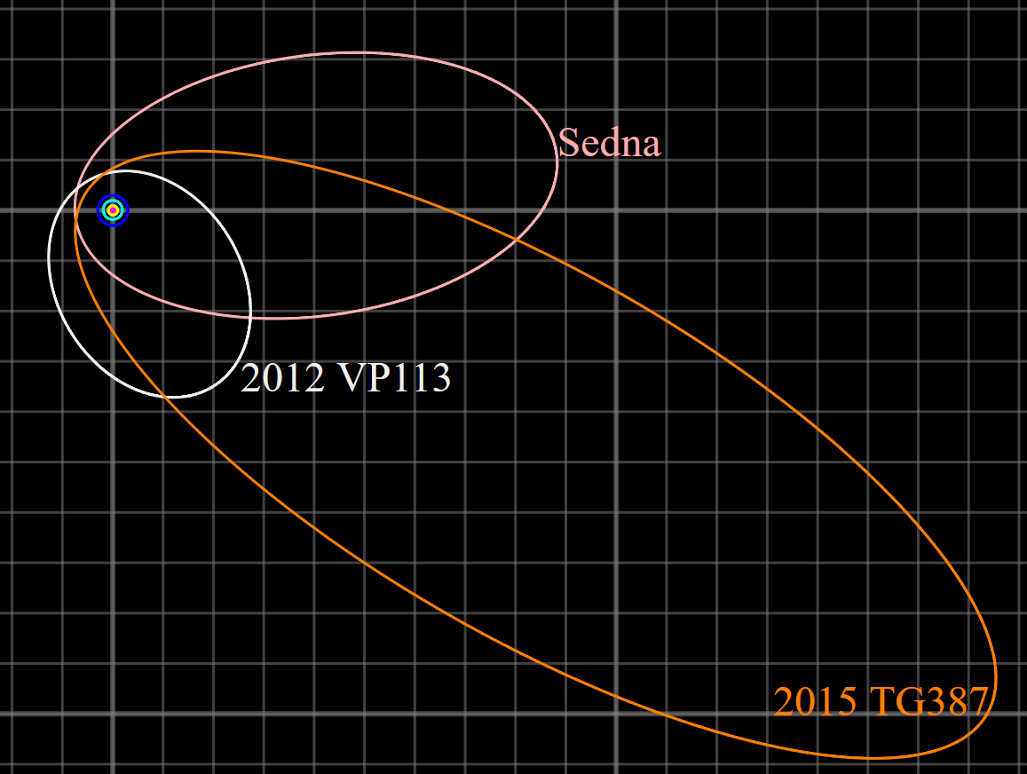 Sednoids, 3 bodies, Sedna, 2012 VP112, and 2015 TG387, with orbits drawn and 100 AU grids for scale.